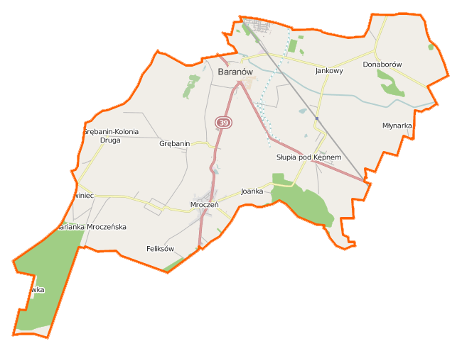 Map of Gmina Baranów, Poland This map of Baranów (gmina w województwie wielkopolskim) was created from OpenStreetMap project data, collected by the community. This map may be incomplete, and may contain errors. Don't rely solely on it for navigation. Border coordinates51.287917.8885←↕→18.111751.1808